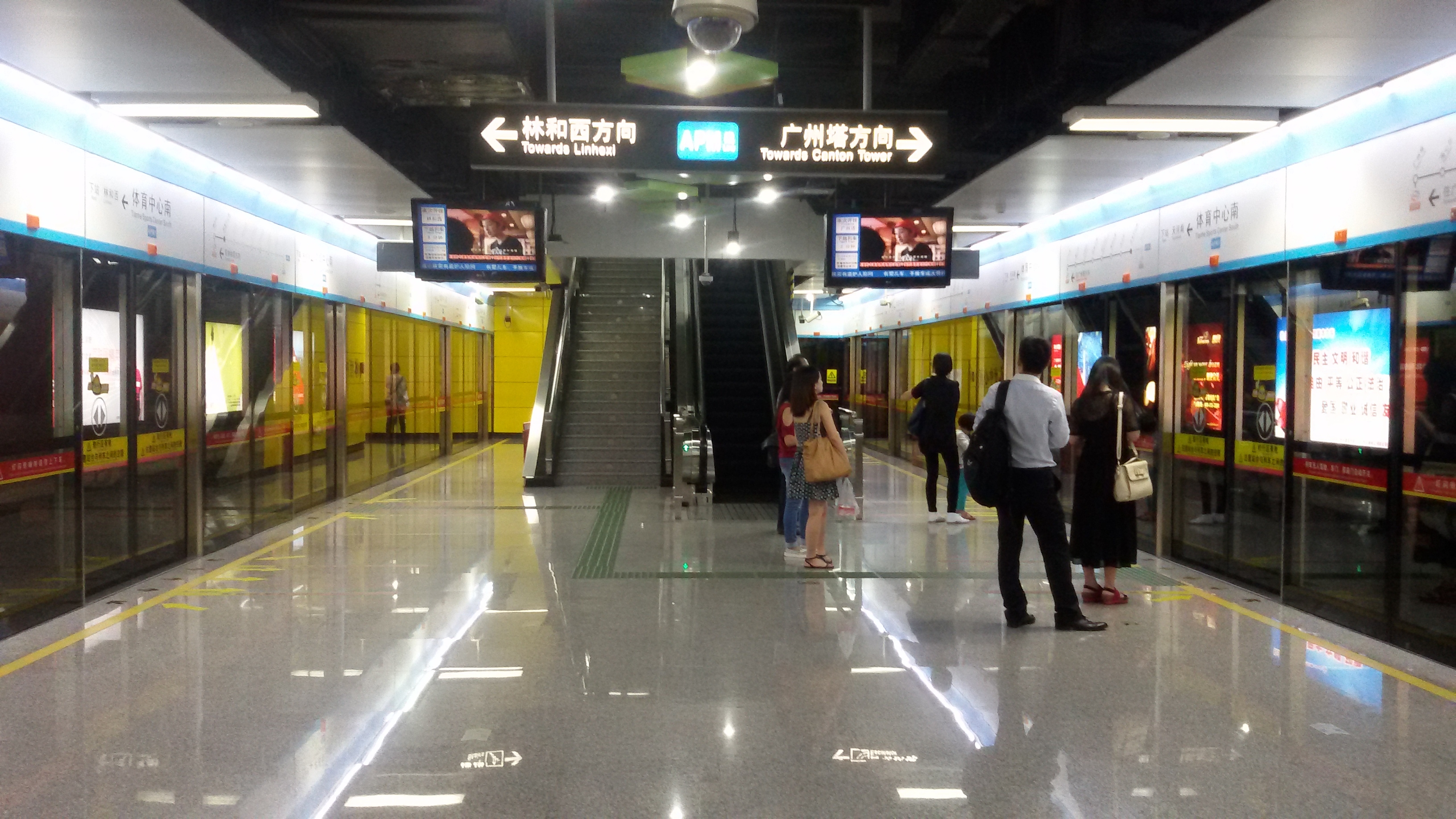 Platform for Tianhe Sports Center South Station, Guangzhou Metro 粵語: 廣州地鐵，體育中心南站嘅站台。